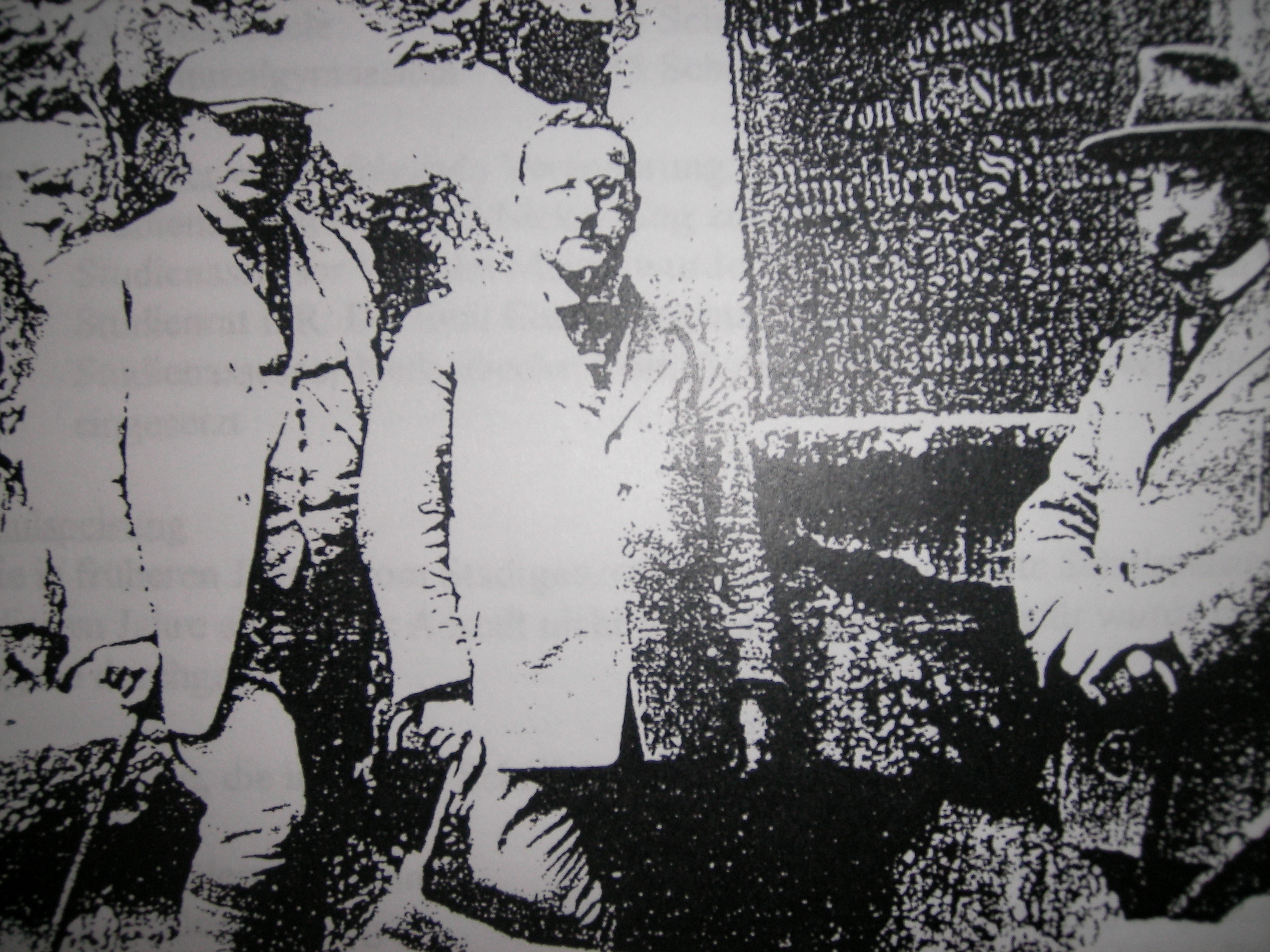 Wanderung zur Saale